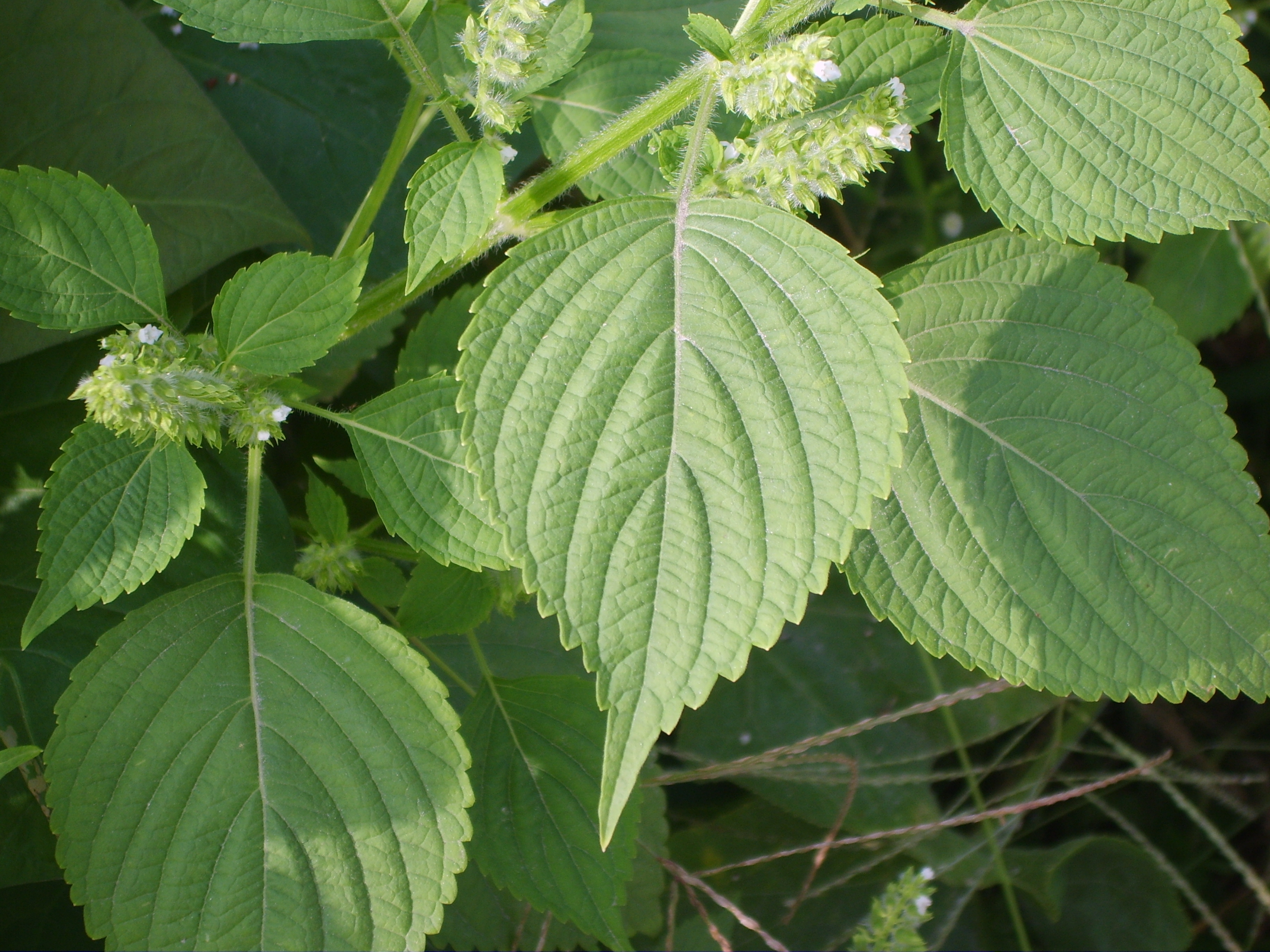 Perilla frutescens's foliage in Gimpo, Korea